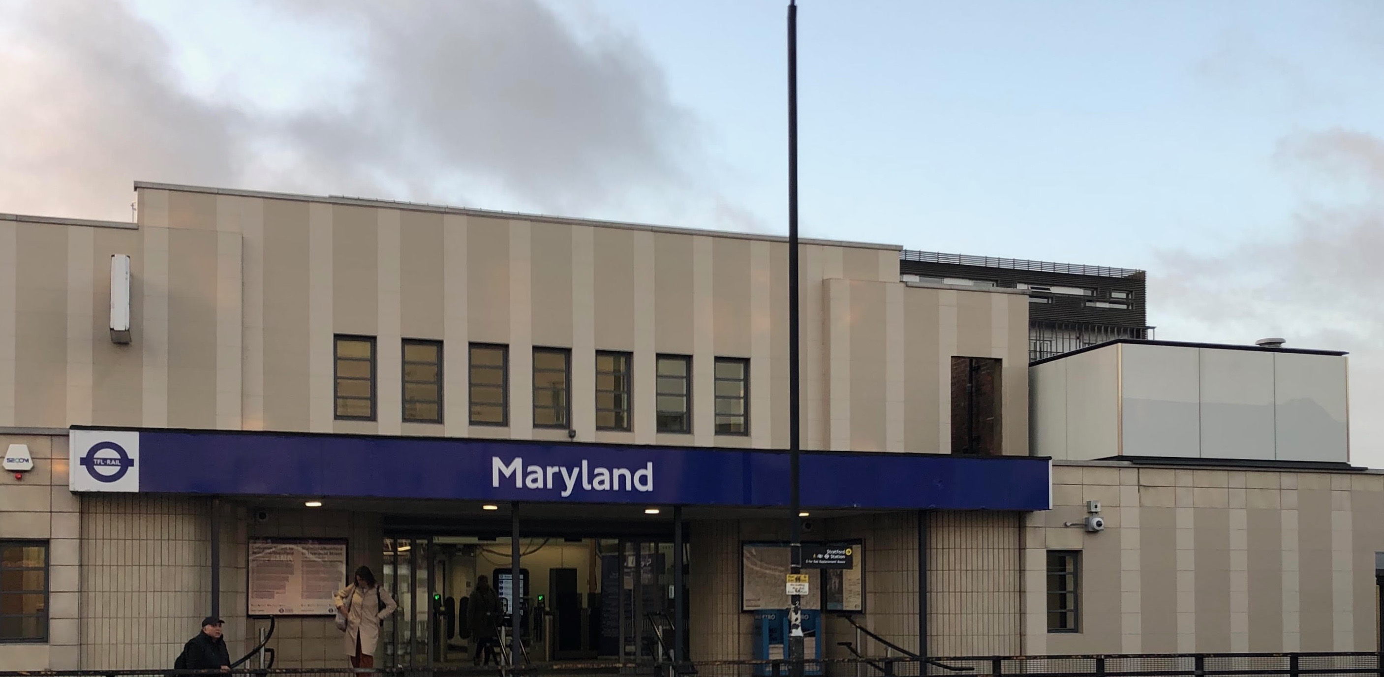 Taken in September 2019